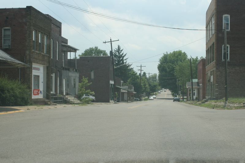 Albany, Ohio, July 2007, Vbofficial 00:29, 16 July 2007 (UTC)